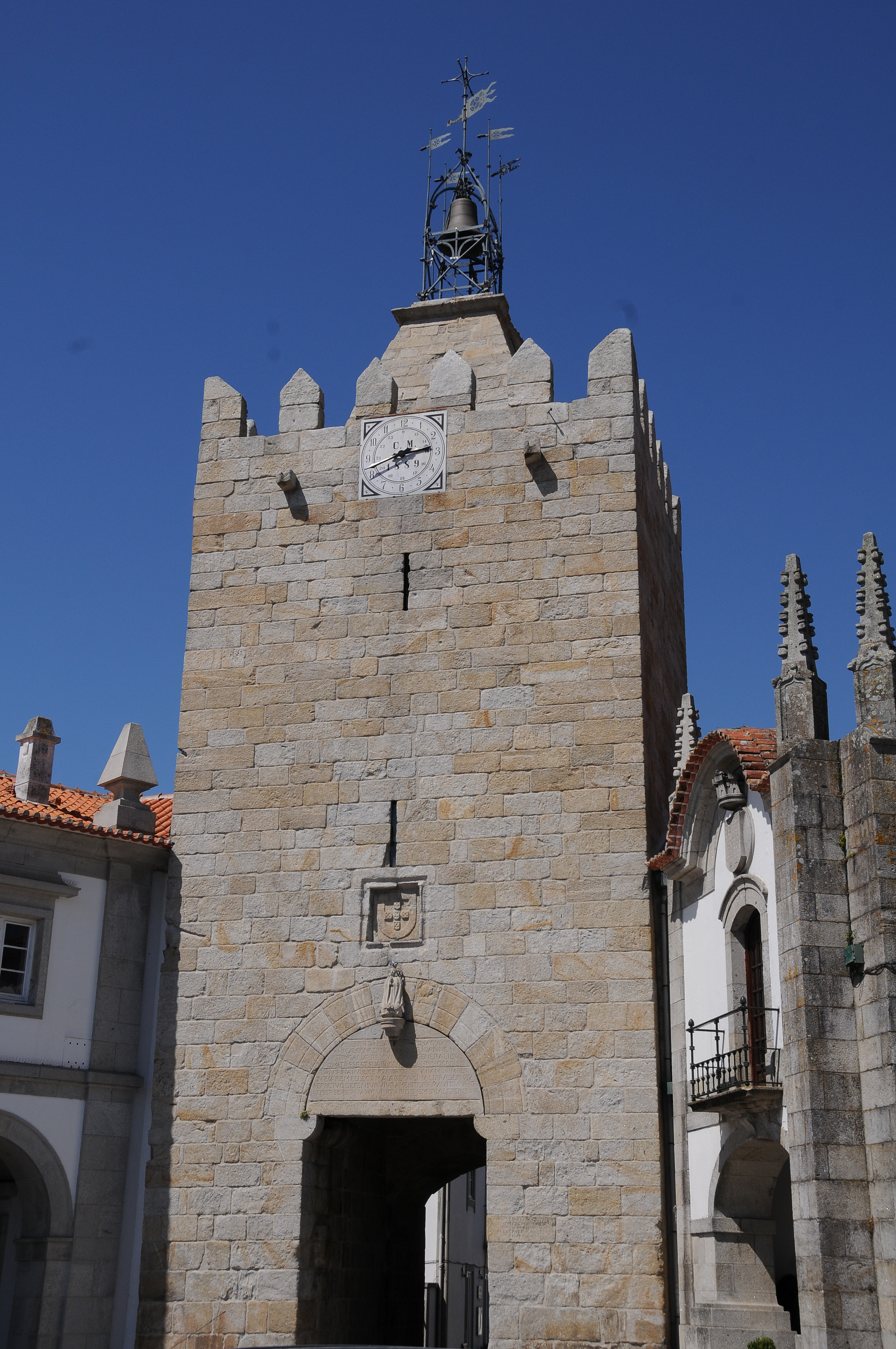 Torre do Relogio - Caminha, Portugal.